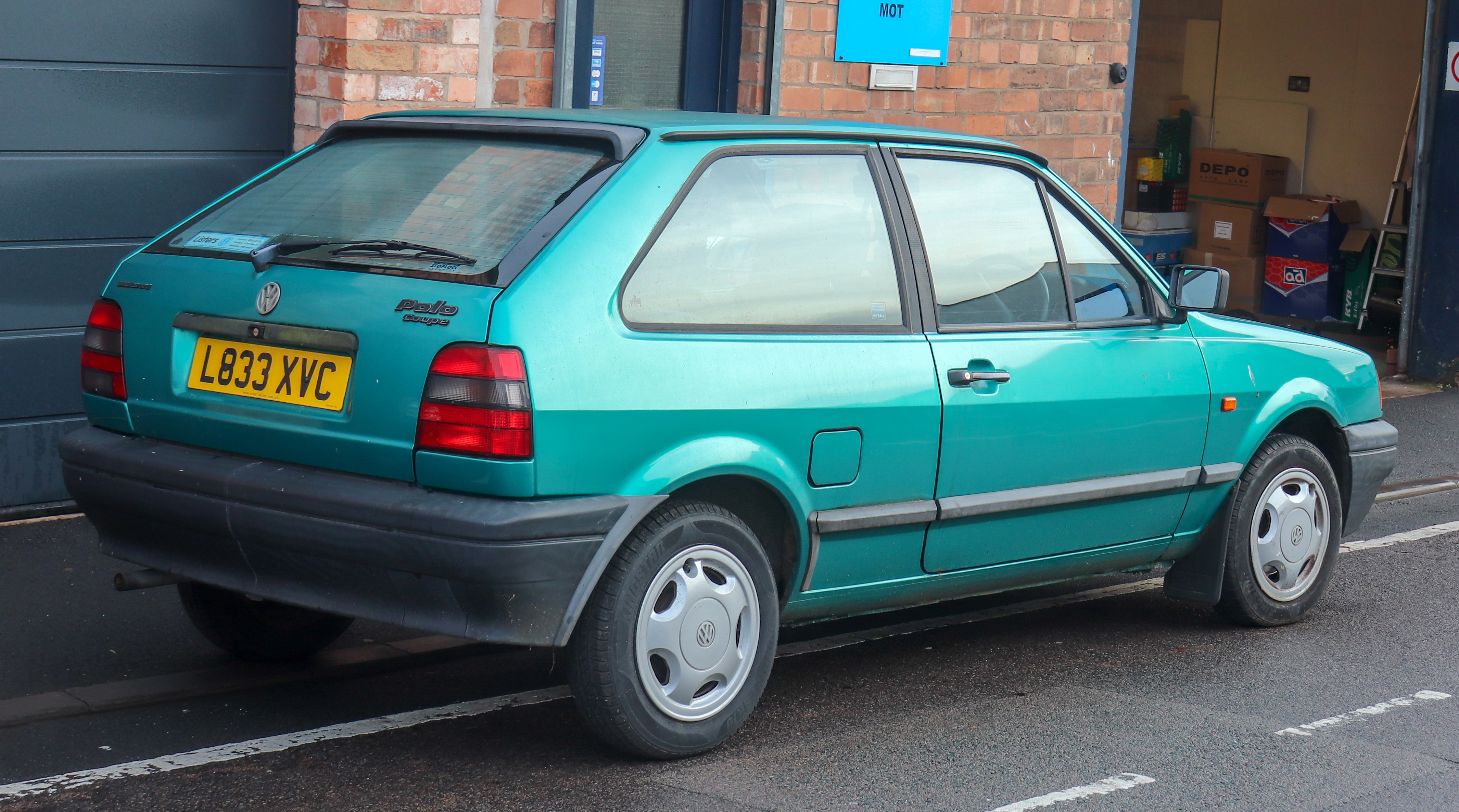 1994 Volkswagen Polo Coupe Boulevard 1.0 Rear Taken in Leamington Spa